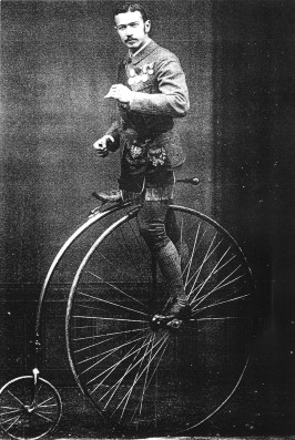 Eduard Engelmann riding a penny-farthing